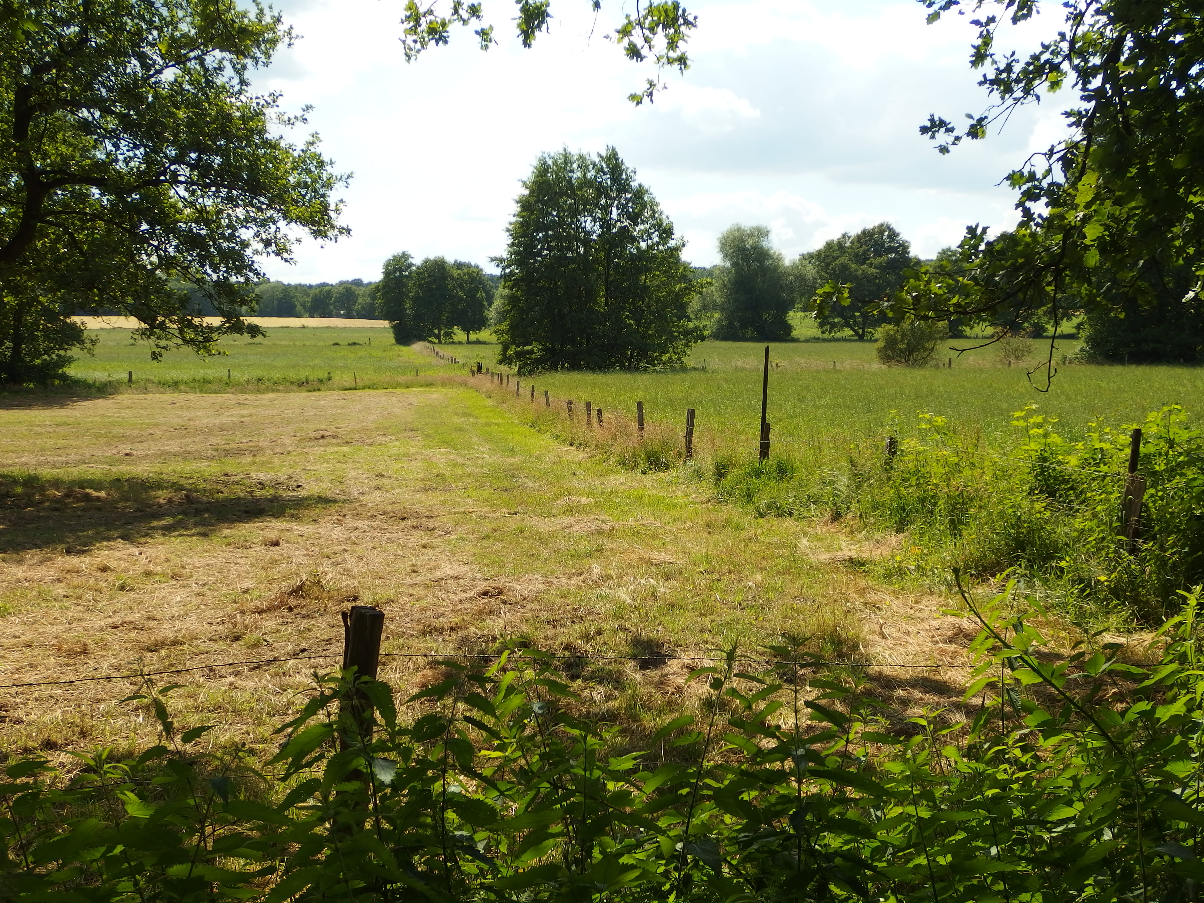 Im Fort (OB-003) Oberhausen, NRW, D, looking west towards highway A3